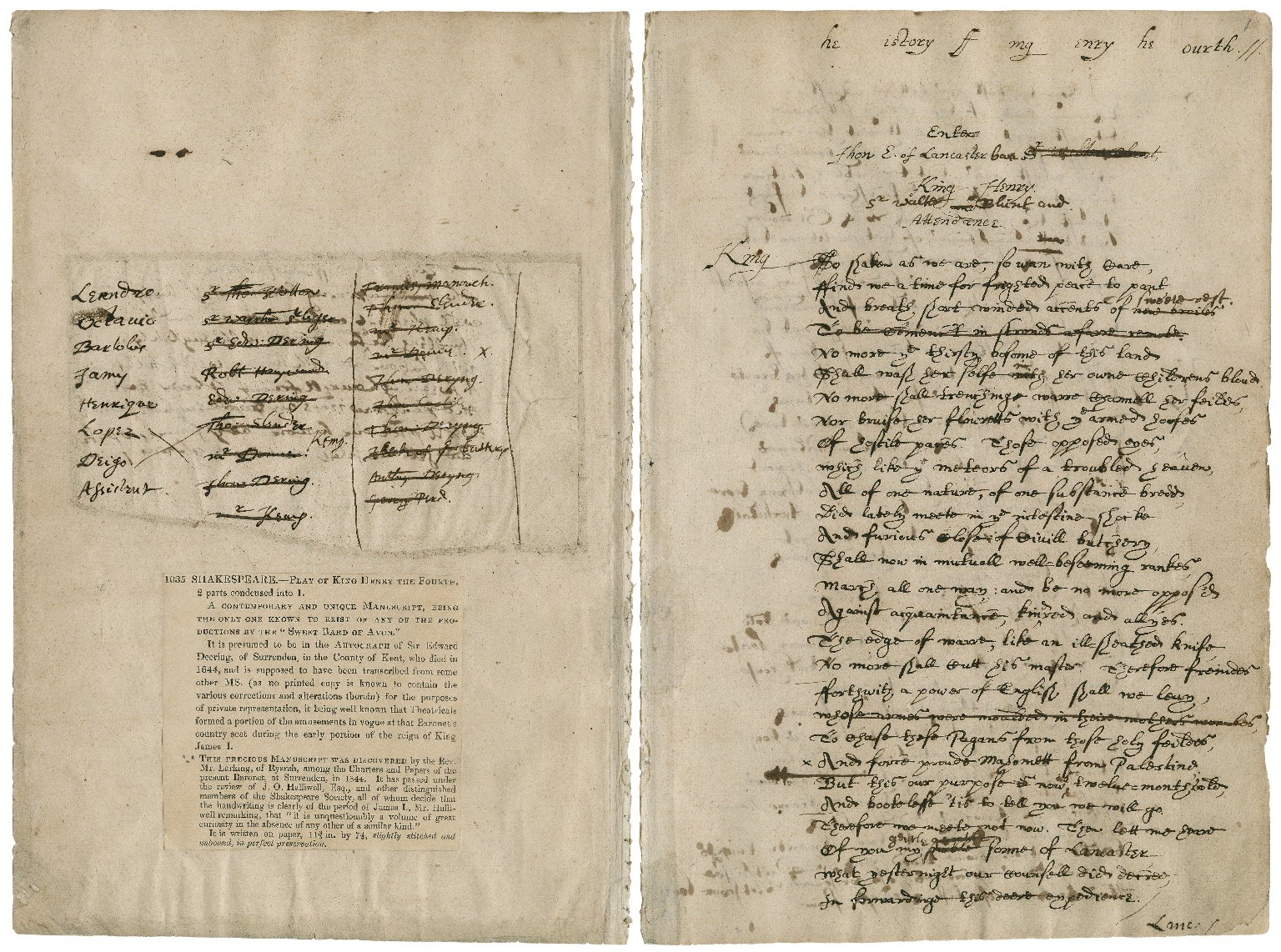 "The Dering Manuscript" – the earliest extant manuscript of a Shakespearian play.